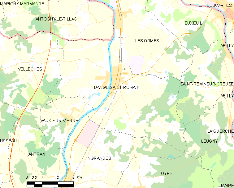 Map of French municipality Dangé-Saint-Romain